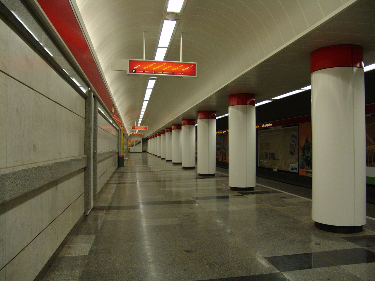 Line 2 (Budapest Metro), Astoria station